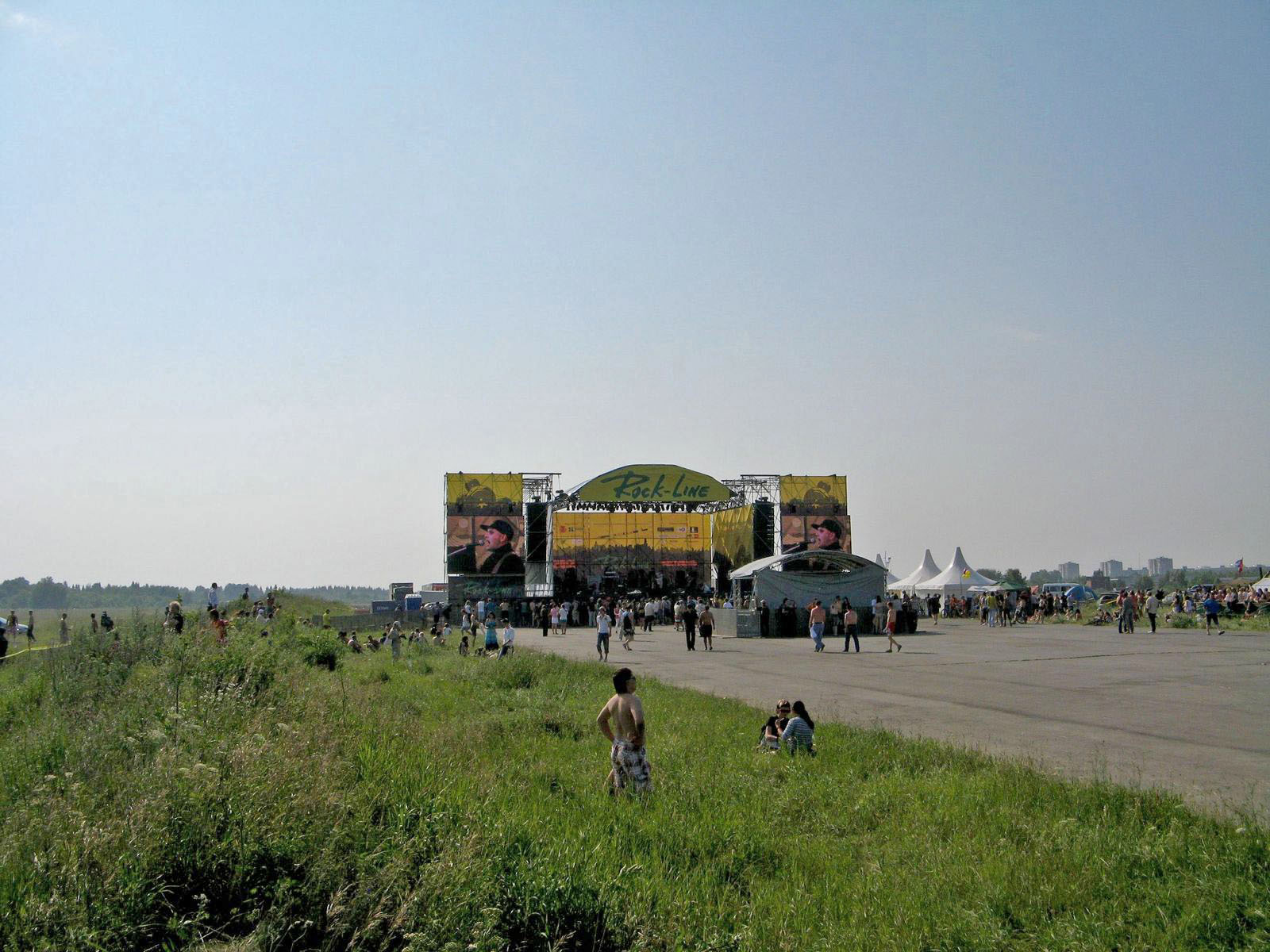 "Rock-Line" music festival at Bakharevka airport field, 2012